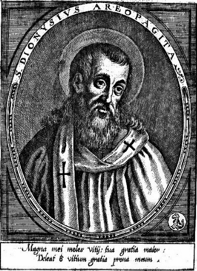 Dionysius Areopagita